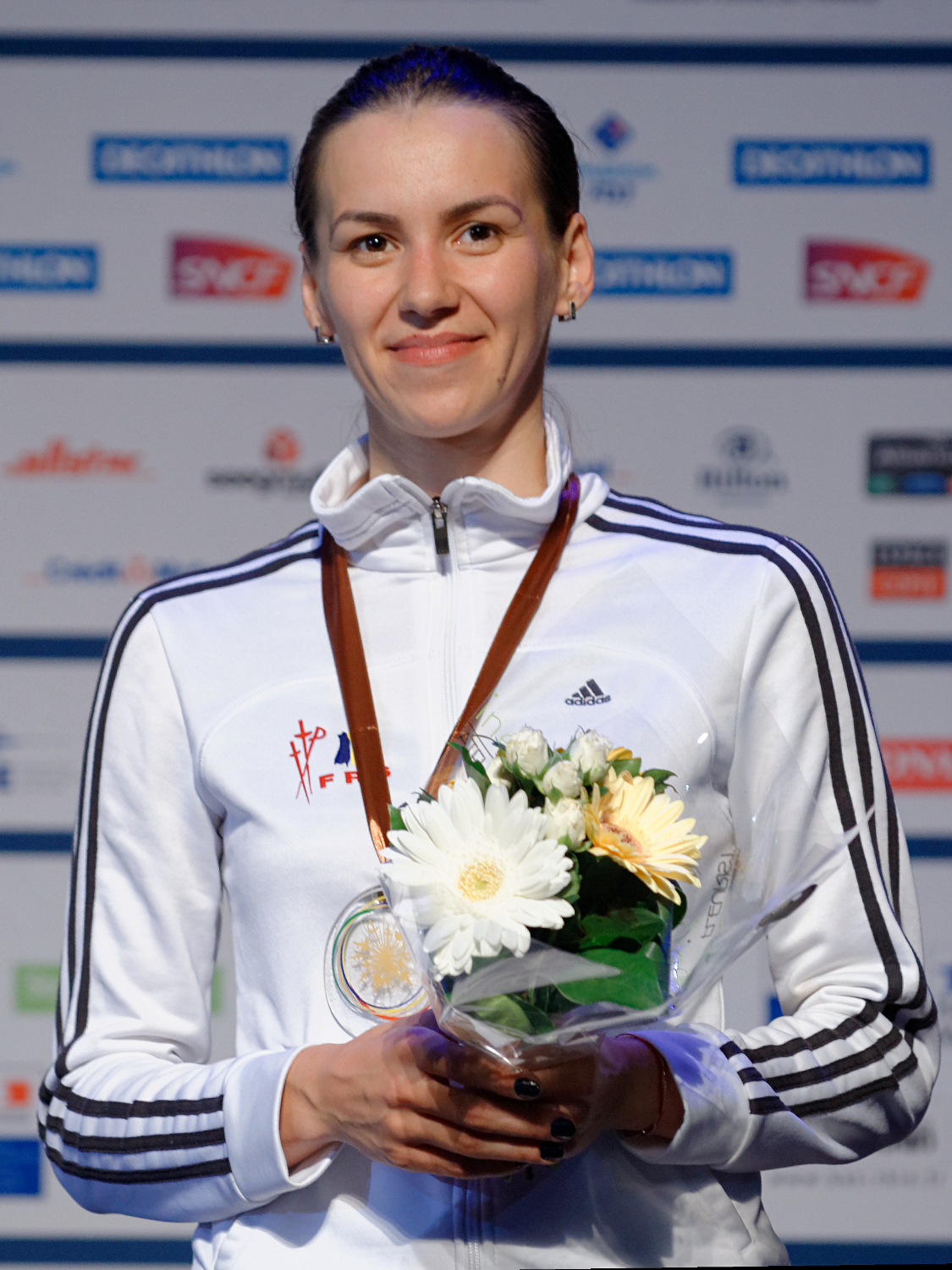 Bronze medal Simona Gherman of Romania stands on the podium for women's épée in the European Fencing Championships at Rhénus Sport in Strasbourg on 8 June 2014.